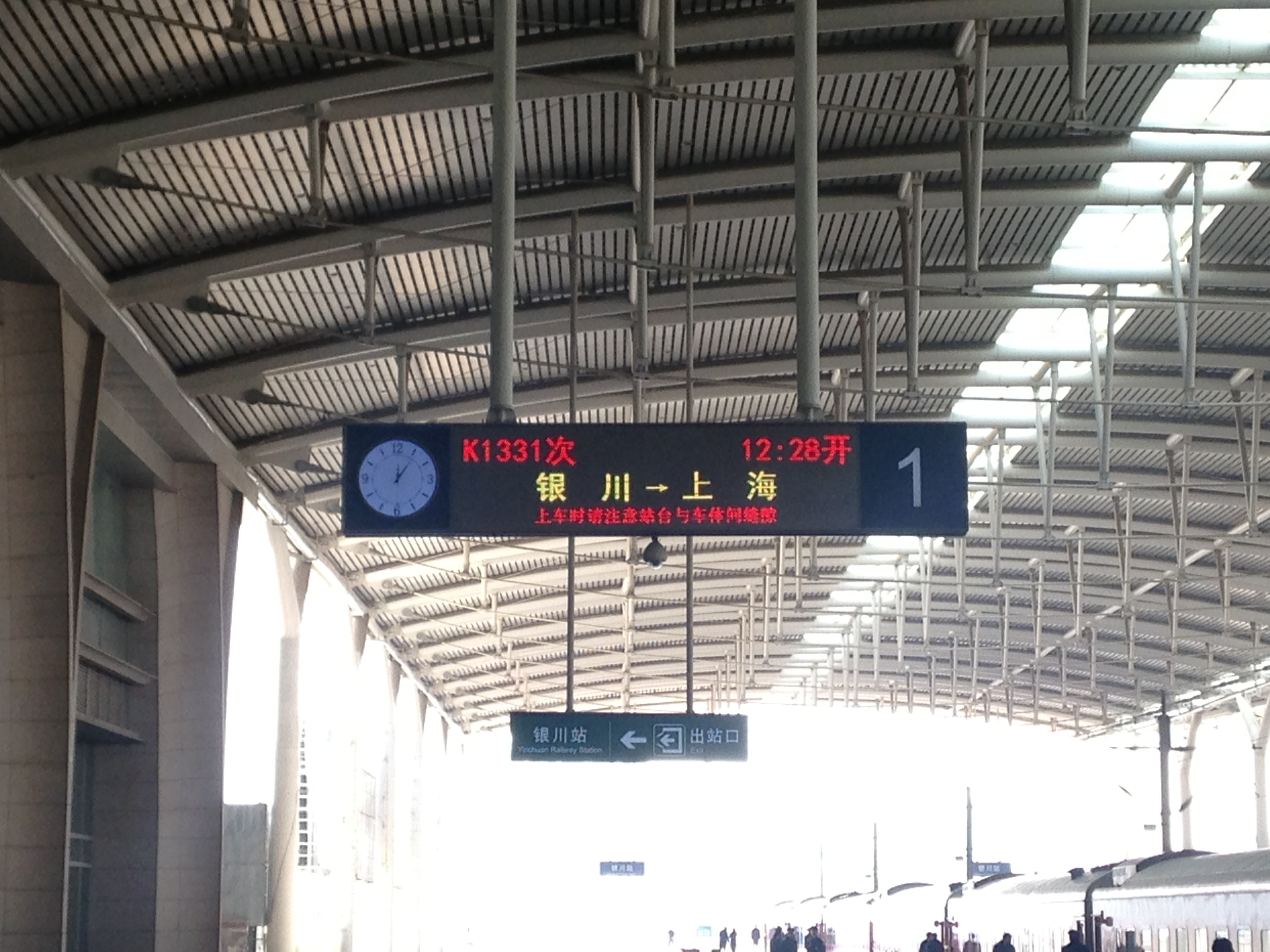 K1331， Yin Chuan，1 Platform